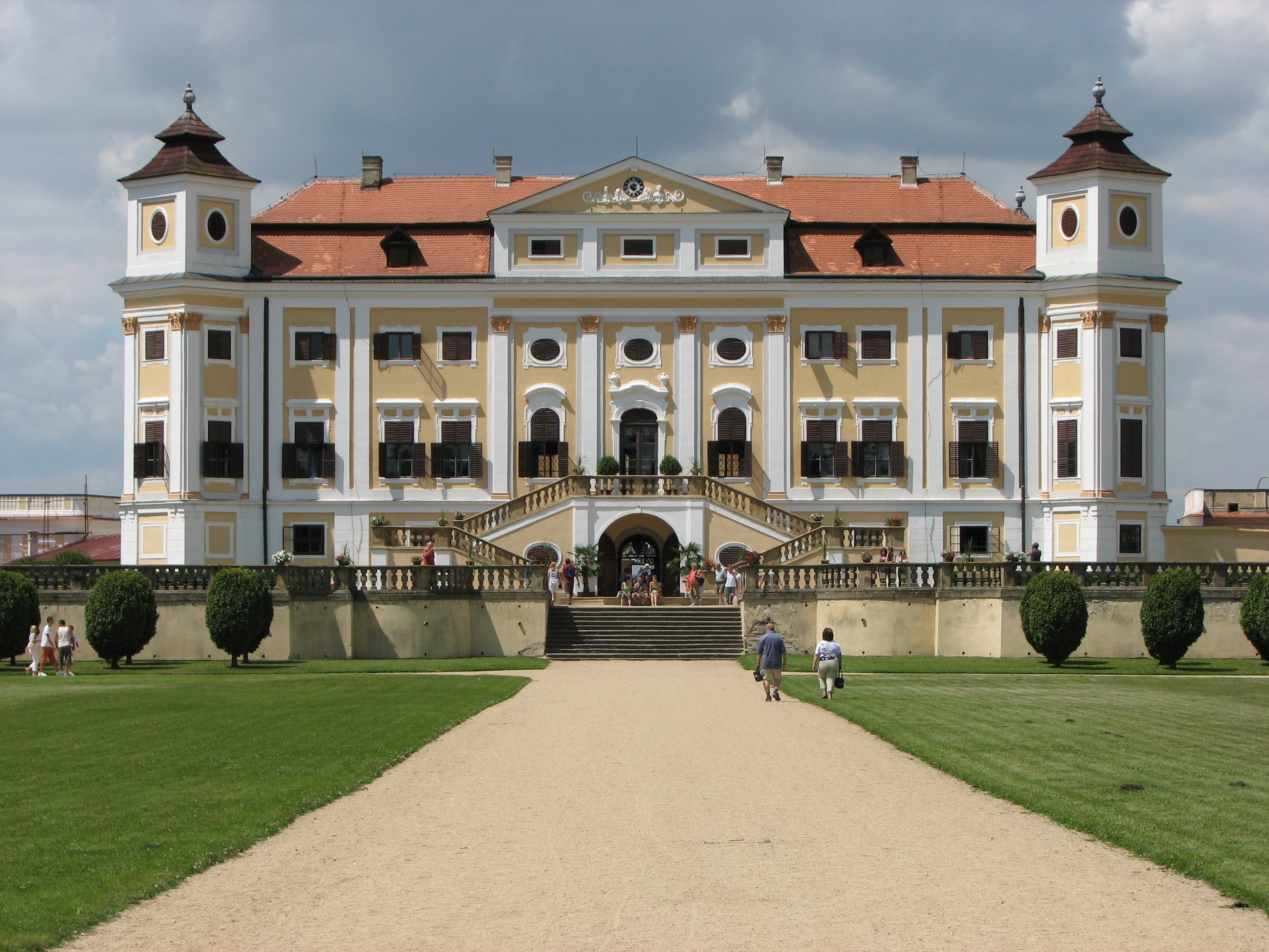 Milotice château (Czech Republic)